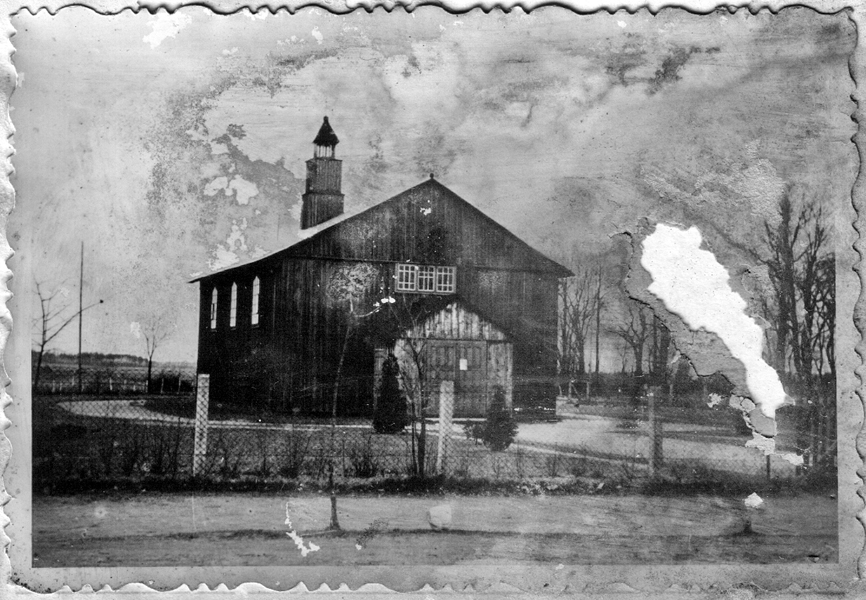 Dworszowice Pakoszowe, old church.